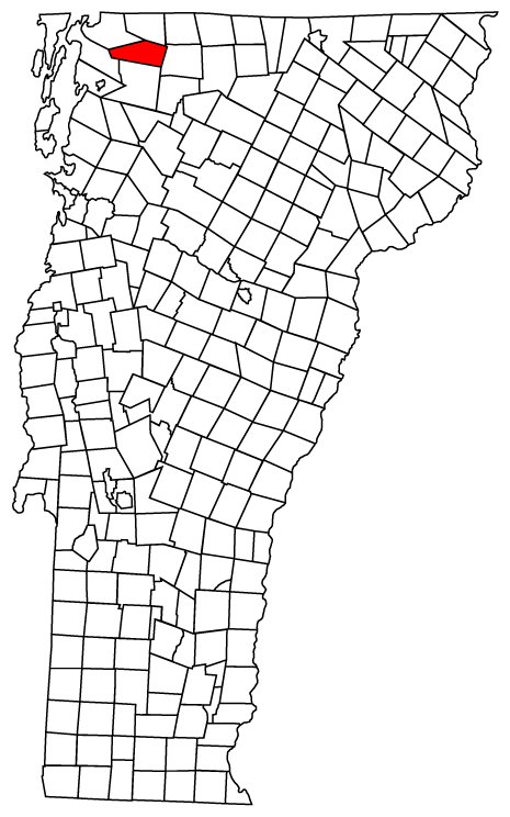 Map of Vermont towns with Sheldon highlighted